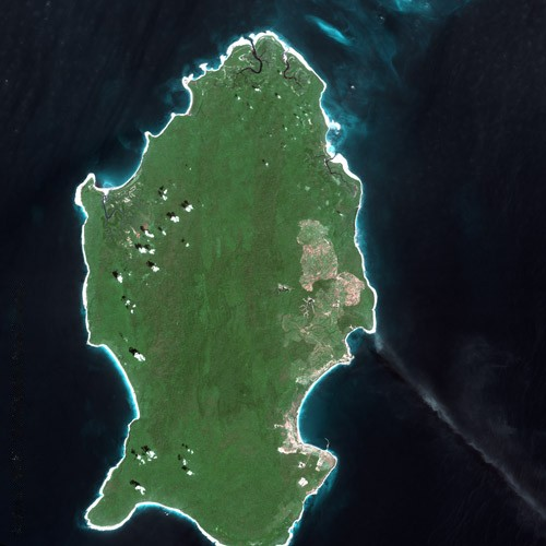 Andaman Islands by SPOT Satellite